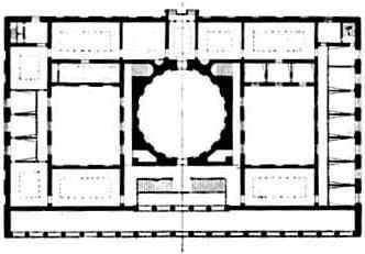 Altes Museum, Berlin, plan.